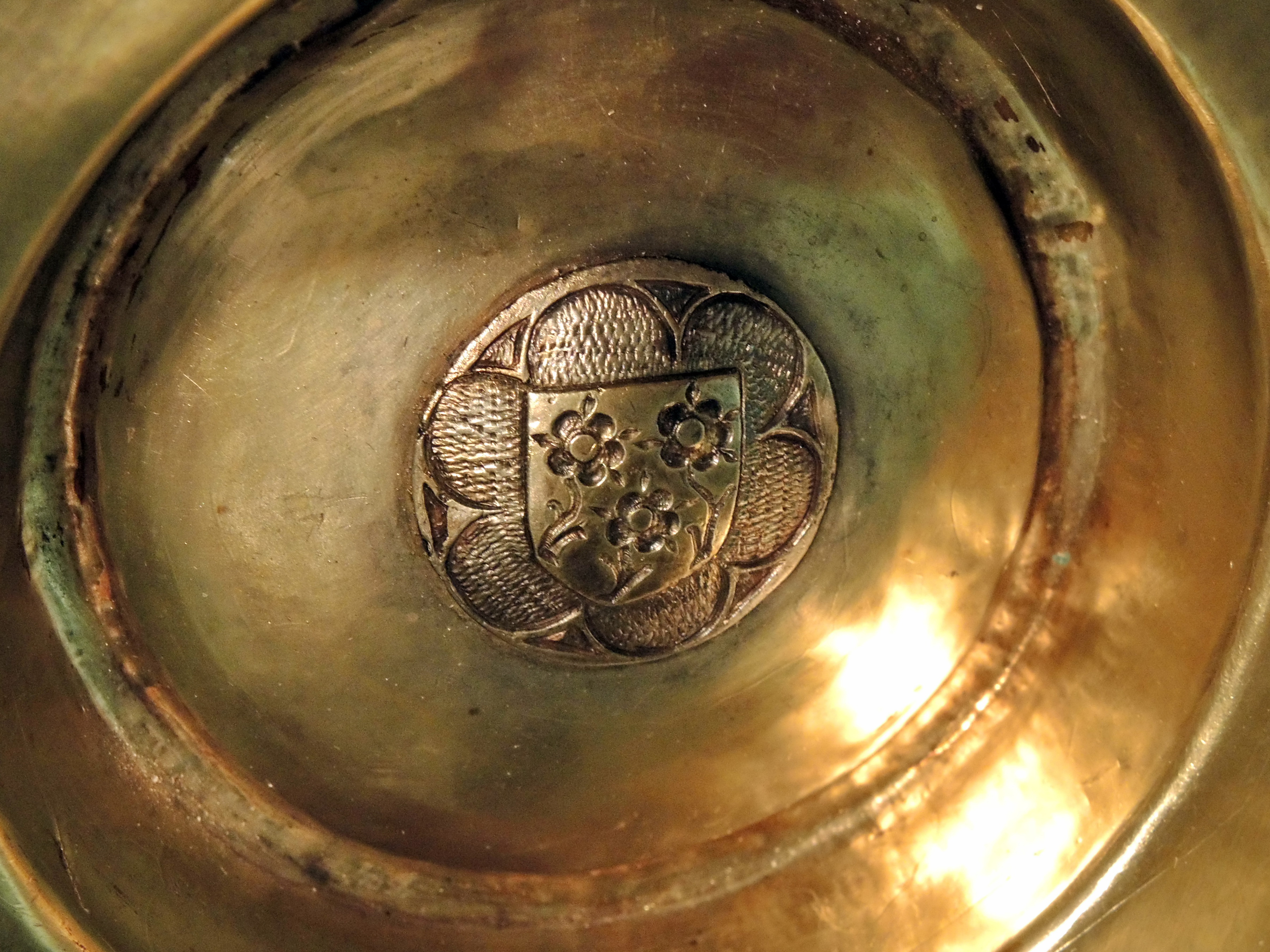 Collection of the Stadtmuseum in Rapperswil (Switzerland): Claimed to be the drinking cup of Countess Elisabeth von Rapperswil of Rapperswil Castle. vormals Ausstellungsobjekt Trinkschale aus Silber, vergoldet, nach 1300. Auf der Bodenrückseite, auf einem angeklebten runden Papier, in einer Schrift des 18. Jh. steht die Notiz: «Trinkgeschier der Gravin Elisabethae von Rappersweyl, so die letzte ihres geschlechts und Rudolphi gravens von Habsburg so Anno 1273 gestorben, gemahlin wahr. Diess Schalerl hat Herr Graf Frantz Ehrenreich von Trautmannsatorff, Kaysers Leopoldi gehaimer Rat und Botschafter in der Schweiz, in dem Benedictiner-Kloster zu Baden gefunden und an sich erhandelt und als eine antiquitet Ihrer Kayln. Maj. verehret Anno 1703.»Die Trinkschale ist im Besitz des Kunsthistorischen Museums Wien, welches der Ortsgemeinde Rapperswil die Bewilligung zur Anfertigung einer originalgetreuen Kopie erteilte.